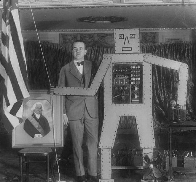 Photo of R. J. Wensley and Televox, the first mechanical man who could perform useful duties. Wensley and his employer, Westinghouse, built the robot. Televox could turn on a fan, unveil a picture, power a vacuum cleaner, etc. The photo was taken just before Televox was introduced to the public in 1928.